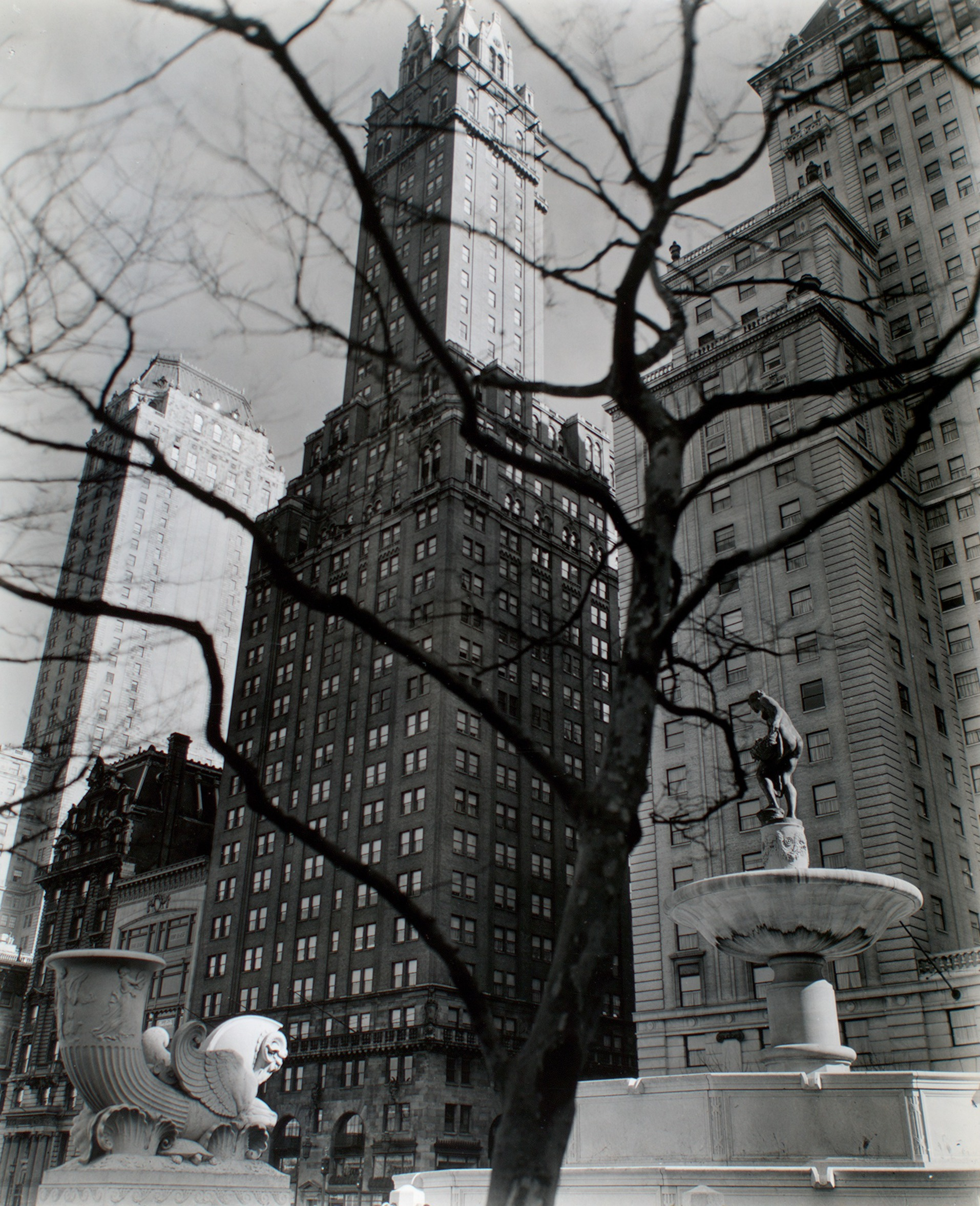 Code: I.A.4. Looking up through trees and past fountain at hotels and other buildings on the plaza. Citation/Reference: CNY# 209